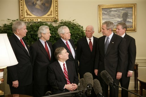 President George W. Bush meets with former justices of the Texas Supreme Court Monday, Oct. 17, 2005, in the Oval Office of the White House. From left are: Former Associate Justice Eugene Cook; former Associate Justice Raul Gonzalez; Texas Attorney General and former Associate Justice Greg Abbott, seated; former Texas Chief Justice John Hill; former Associate Justice James Baker; the President, and former Associate Justice Craig Enoch. White House photo by Eric Draper